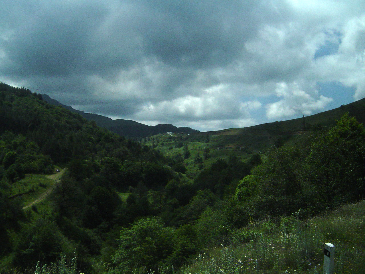 A stunning view of the luscious, green mountains of Nagorno-Karabakh. Photo taken by Marshal Bagramyan.